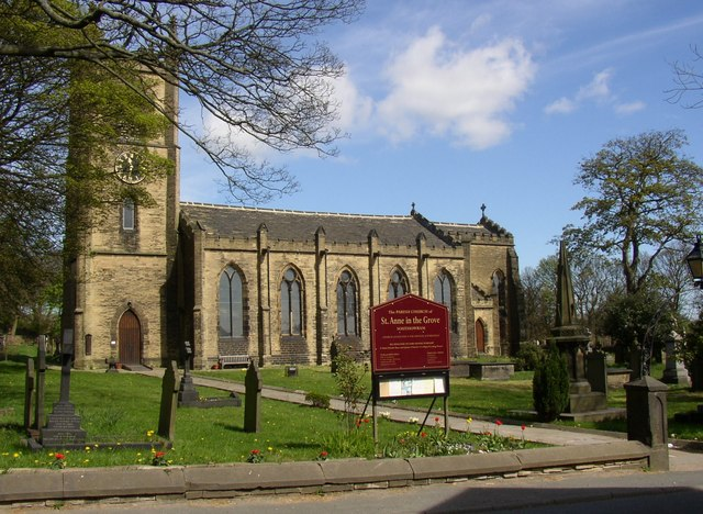 St Anne in the Grove Church, Church Lane, Southowram Another view. St Anne's Church was completed in 1819, designed by Thomas Taylor, and the chancel was added in 1869. The church is in the lancet style and has a simple west tower. It replaced the ancient chapel that was 900m to the east.